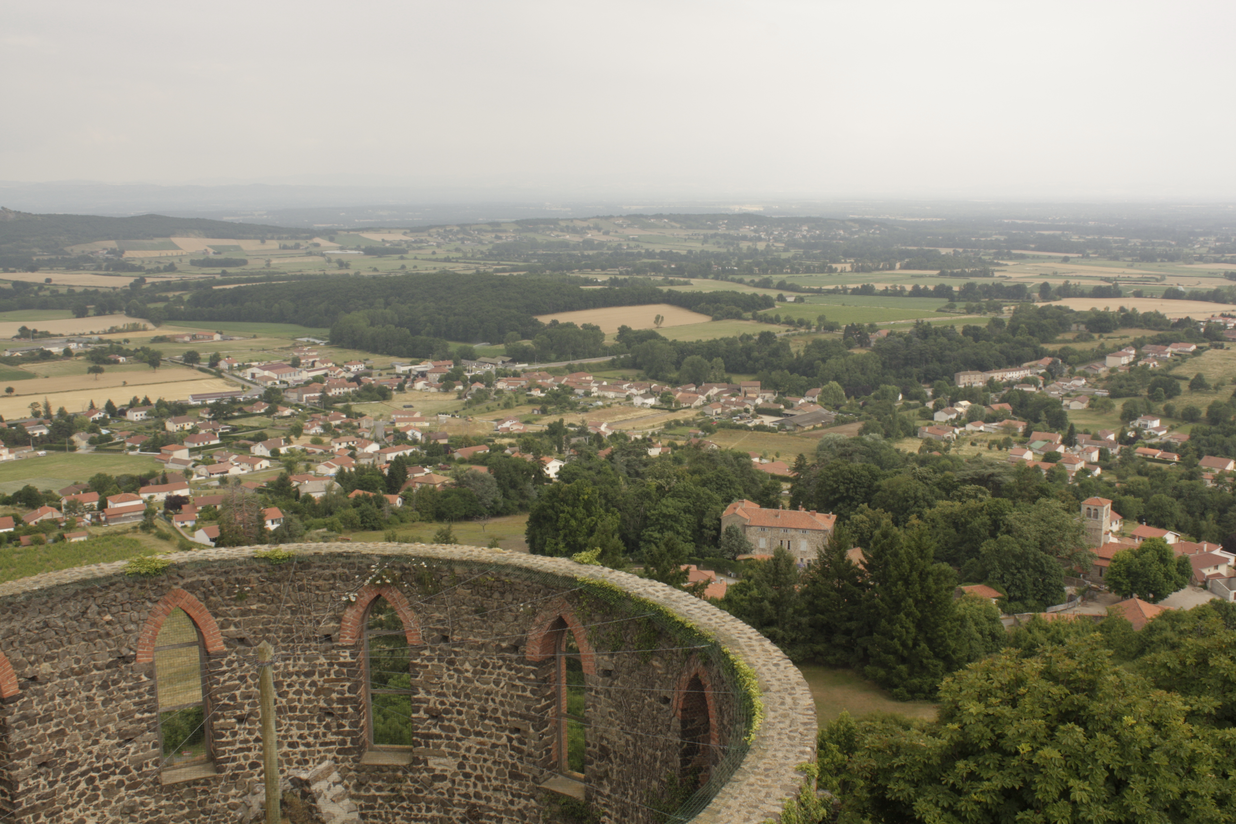 General view of Marcilly-le-Châtel from the Sainte-Anne castle. A tower of the castle can be seen in the foreground. We can see the Saint-Cyr church on the right.